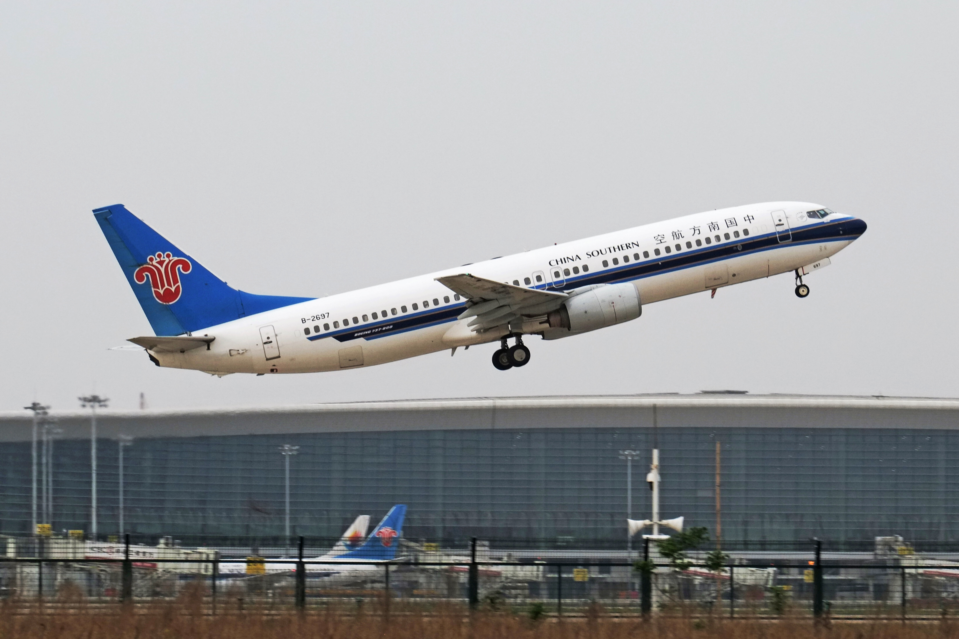 B-2697 on flight CZ8536 to KMG taking off at CGO